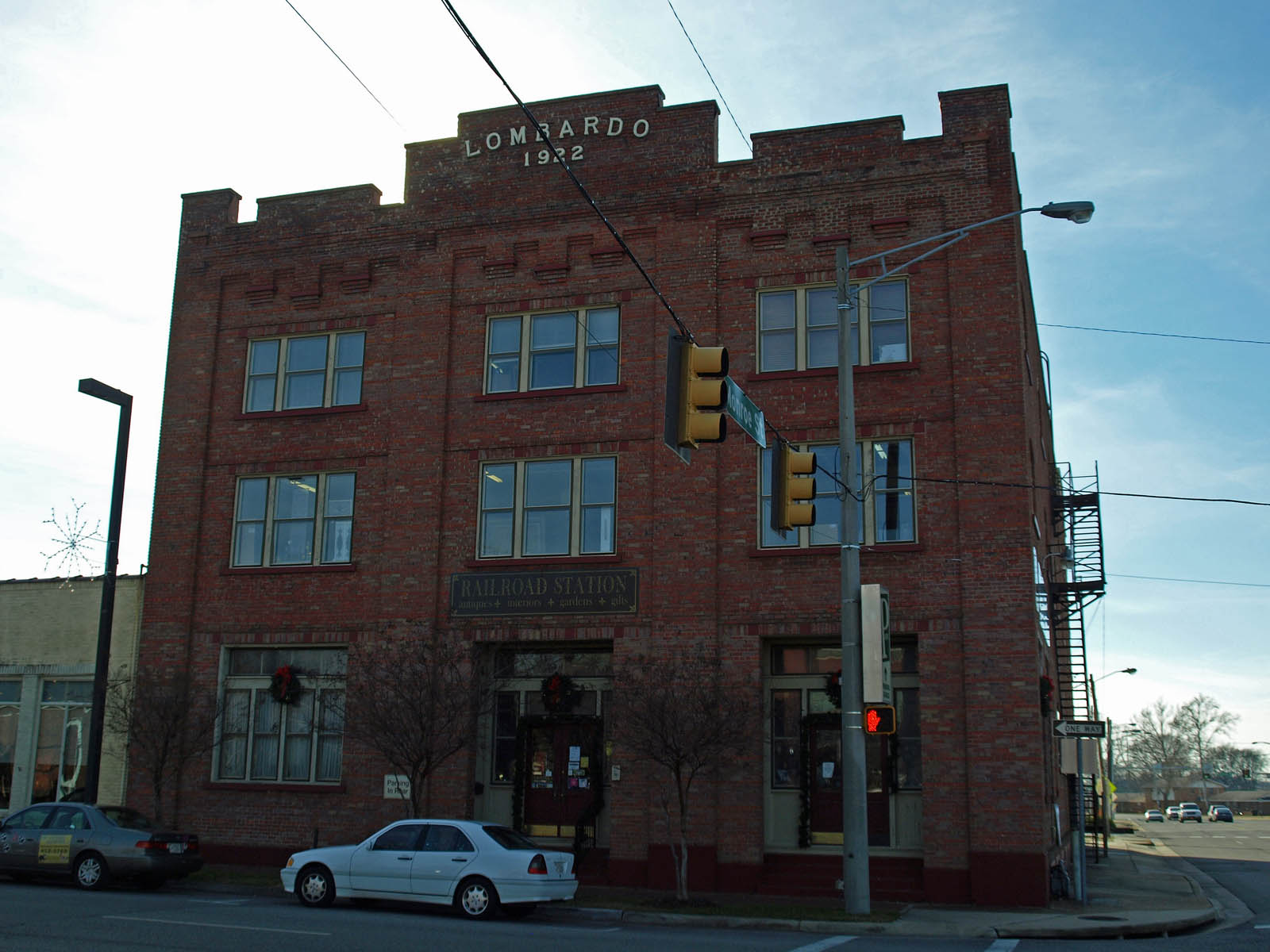 The Lombardo Building in Huntsville, Alabama, listed on the National Register of Historic Places.